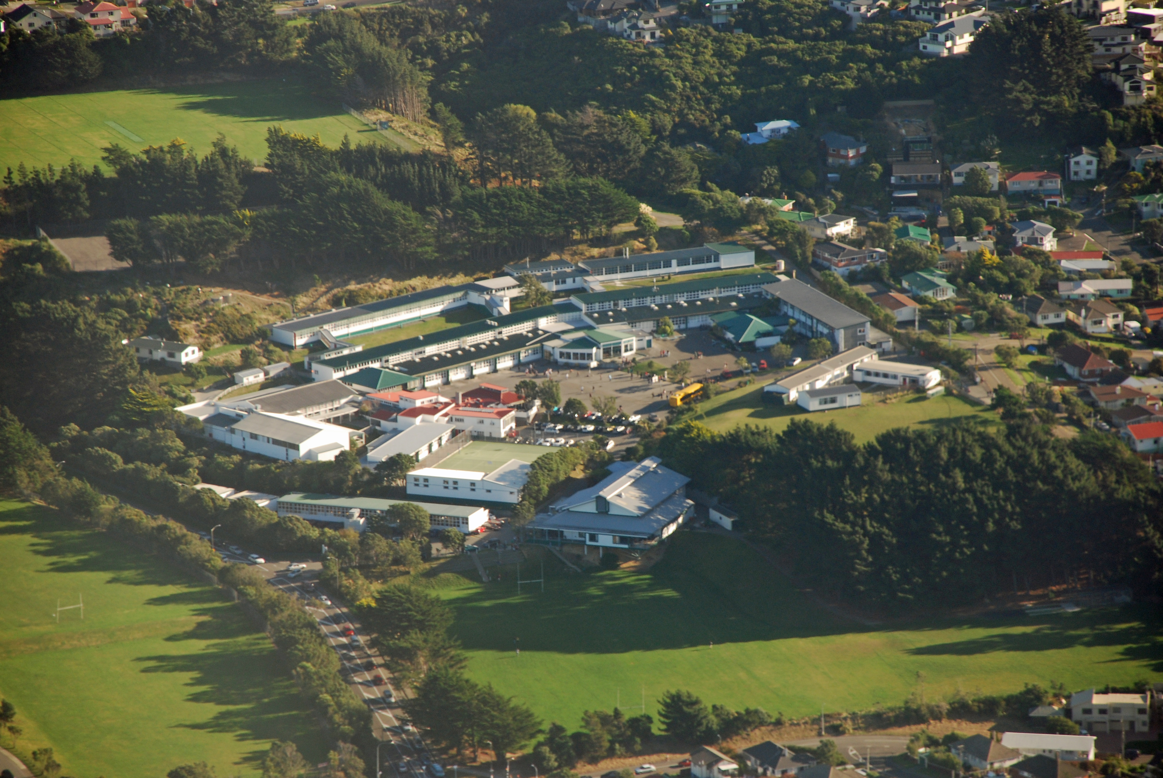 Aerial view of Onslow College, Wellington, New Zealand.